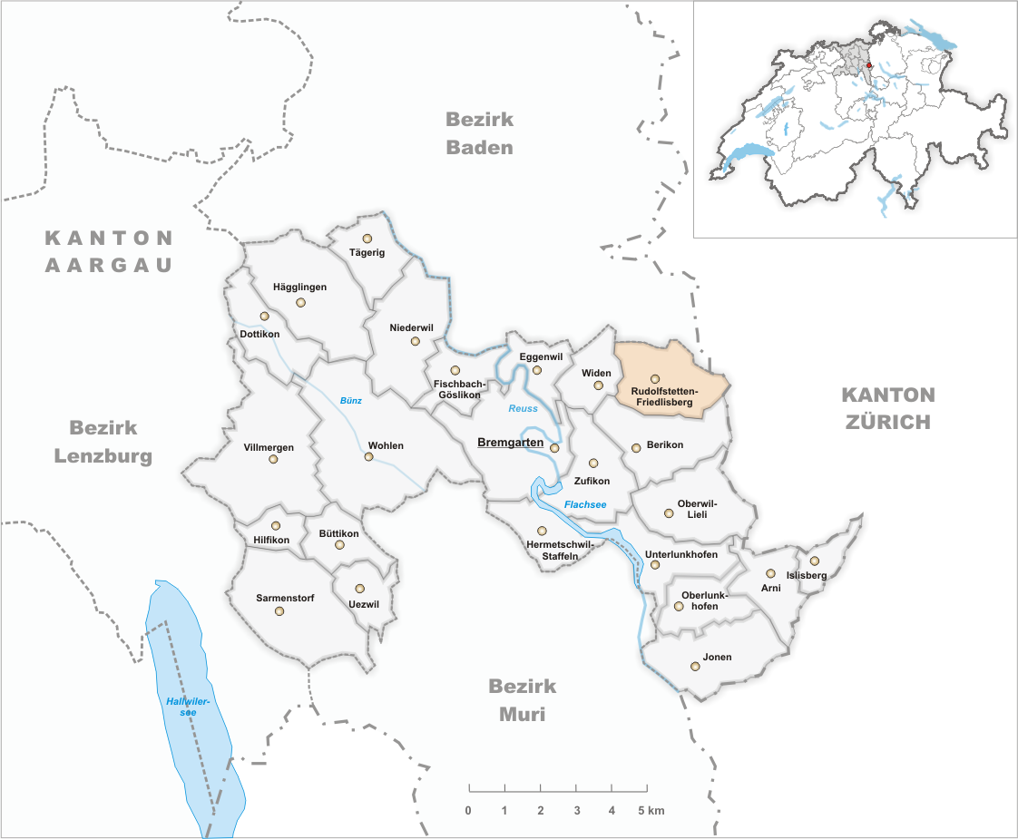 Municipality Rudolfstetten-Friedlisberg